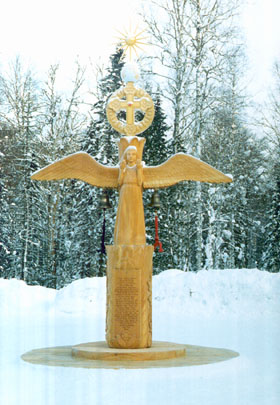 the Symbol of Faith